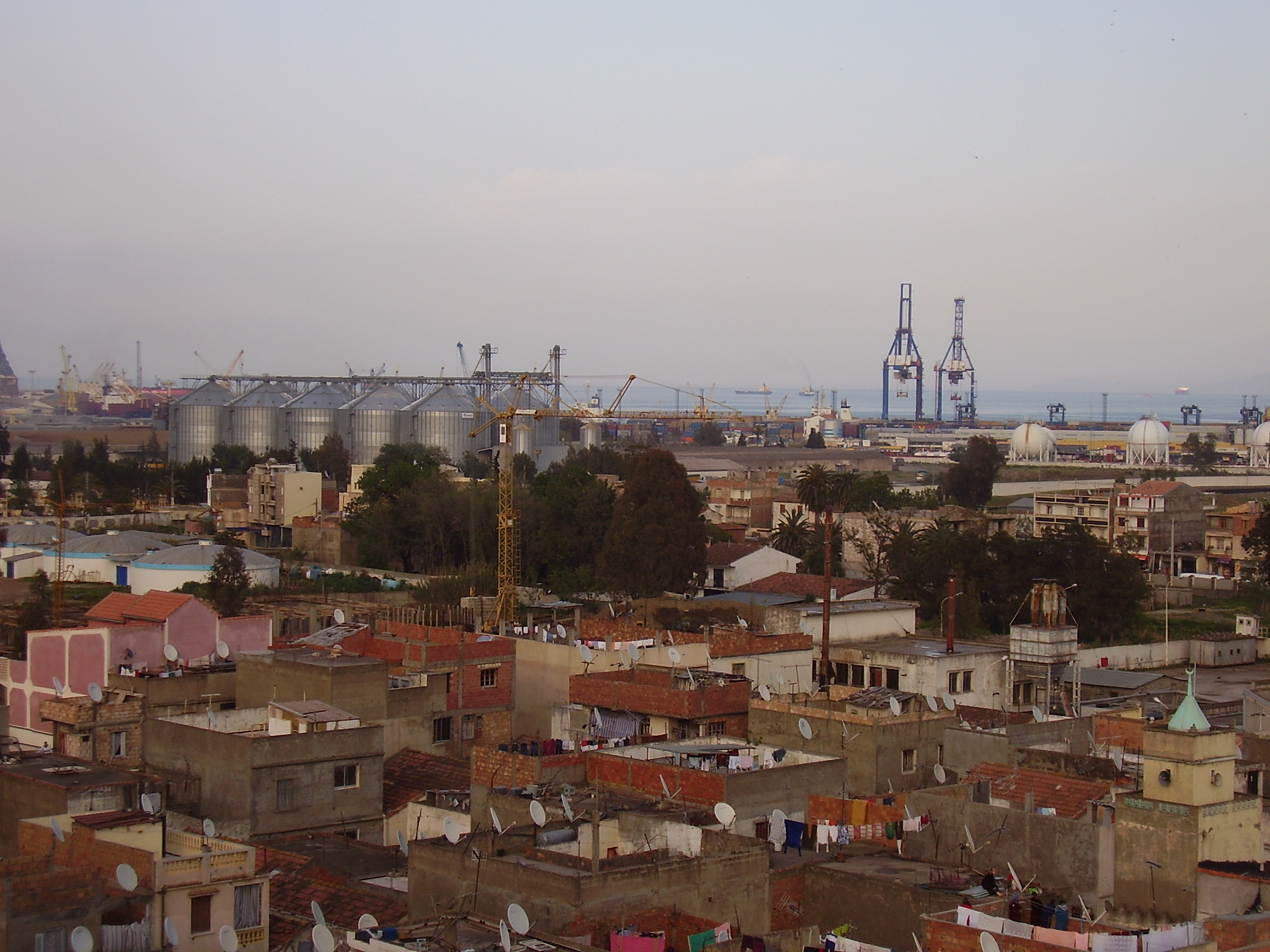 The port of Béjaïa, Algeria